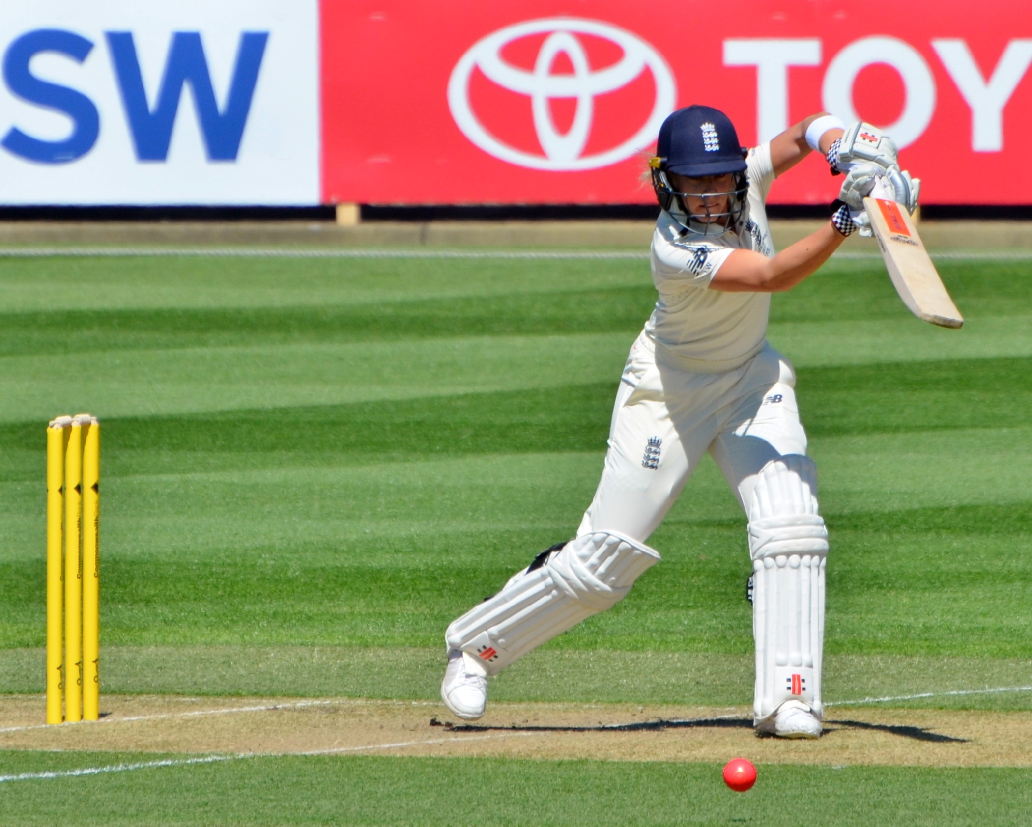 Lauren Winfield batting on the first day of the 2017–18 Women's Ashes Test at North Sydney Oval.